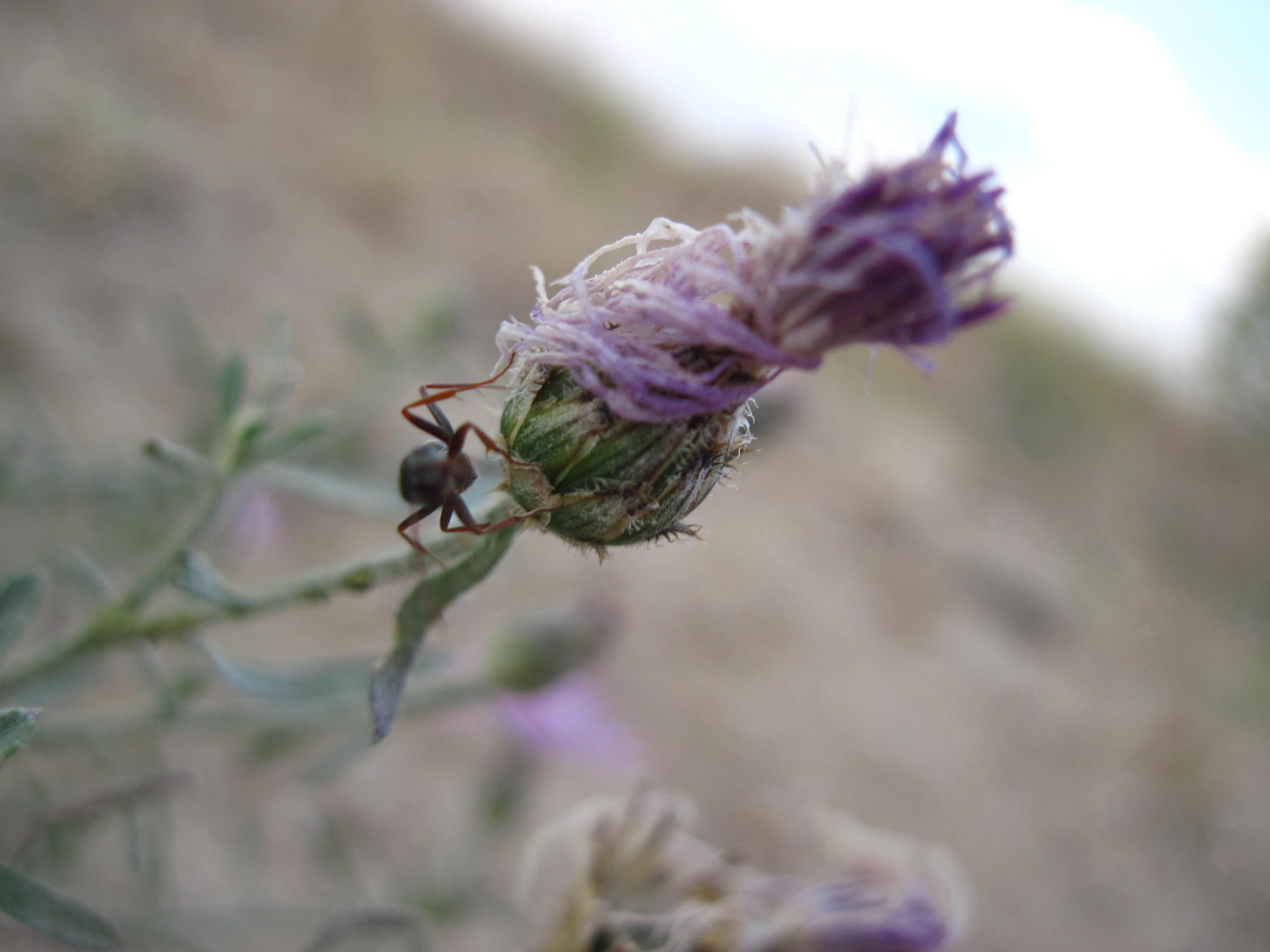 Close-up of a Centaurea maculosa blossom with an ant on it for size comparison. Taken in Jefferson county, Montana, USA.